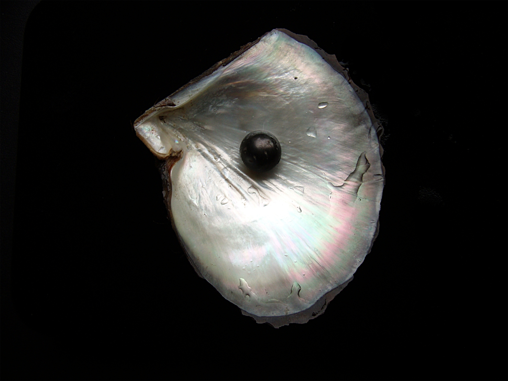 Black pearl and its shell